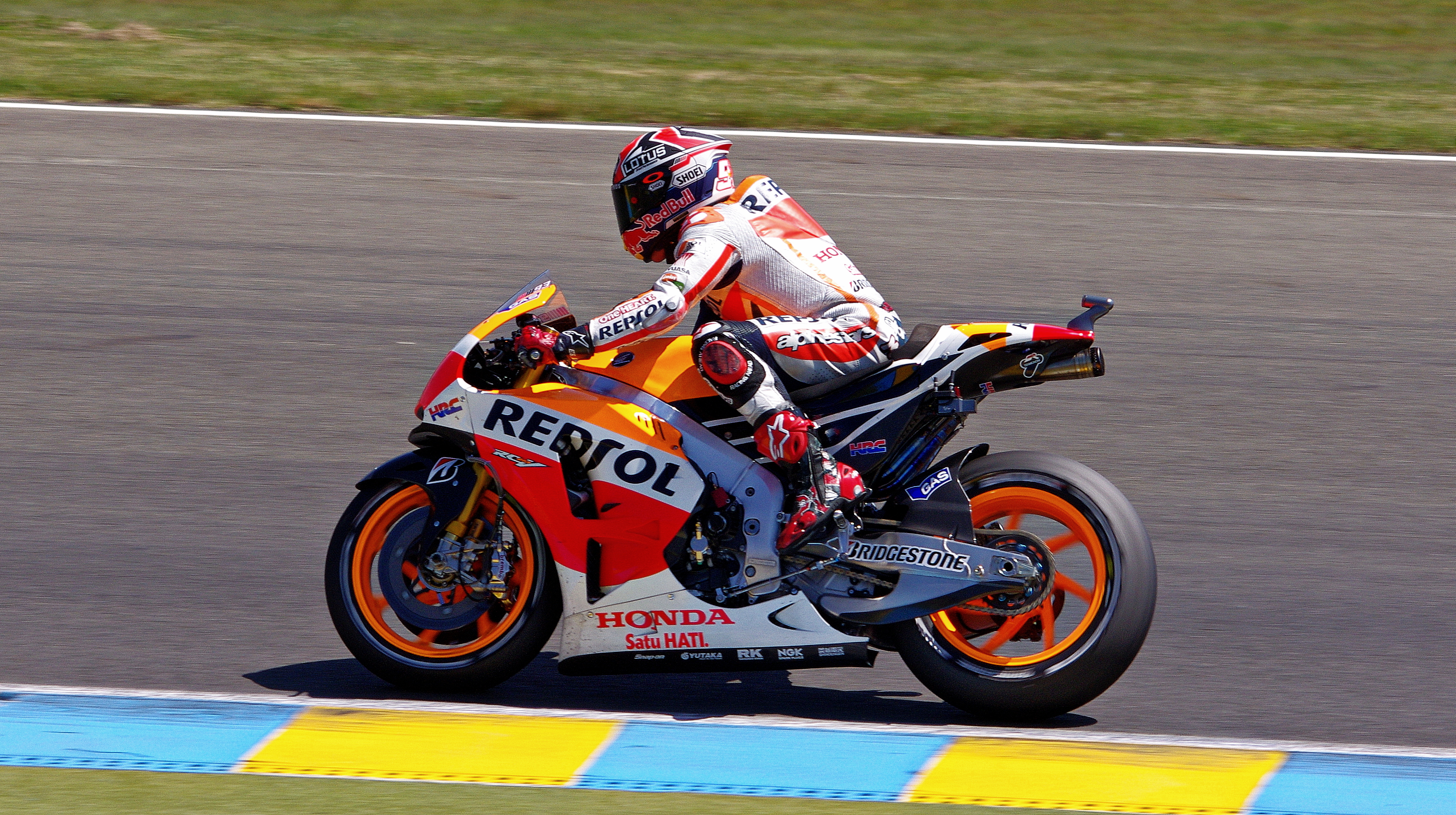 Marc MARQUEZ - Repsol Honda Team - MotoGP 2014 - Le Mans